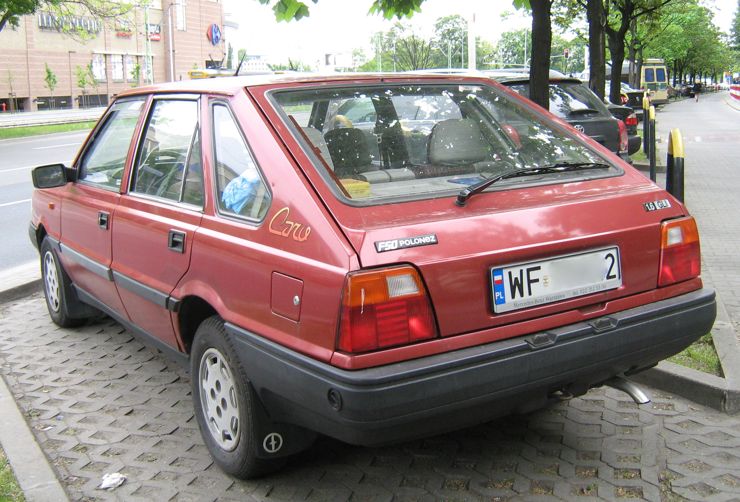 FSO Polonez Caro MR'93 1.6 GLI 4-door hatchback sedan finished in red. Rear view. Taken in Warsaw Poland.